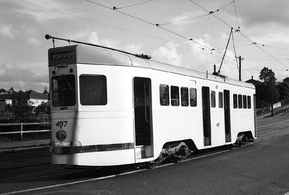 Australia's first resilient wheeled tram, Brisbane Four Motor tram 497 at Milton in 1949